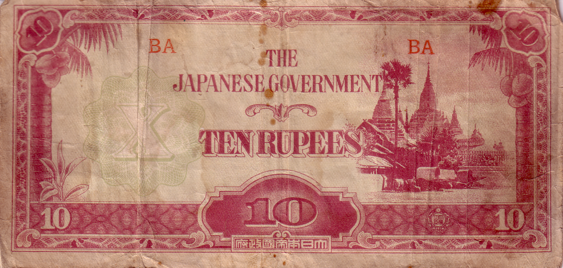 Burmese Ten Rupee note issued by occupying Japanese Army c1943